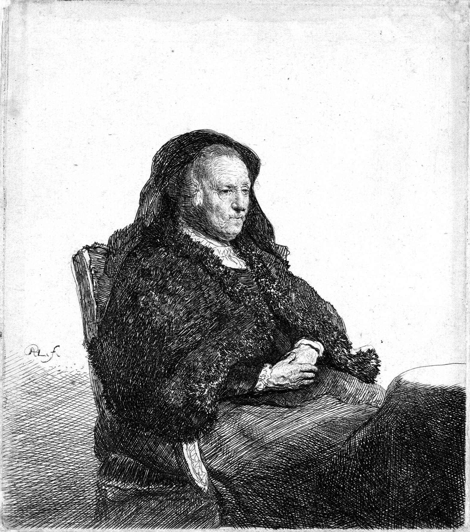 Neeltgen Willemsdr. van Zuytbrouck (1569-1640), Rembrandt's mother etching ca 1631